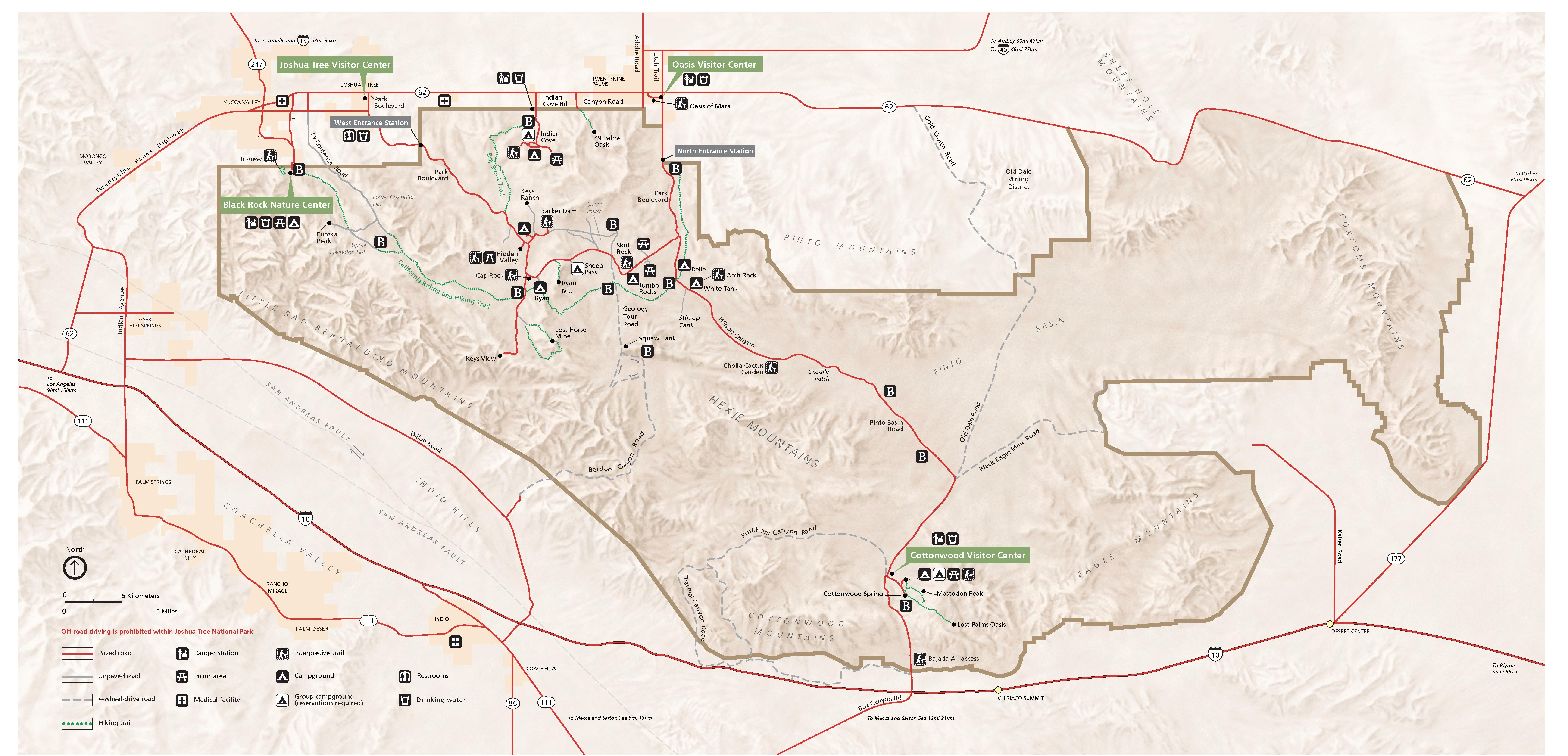 Map of Joshua Tree National Park — in the Mojave Desert, eastern Southern California.